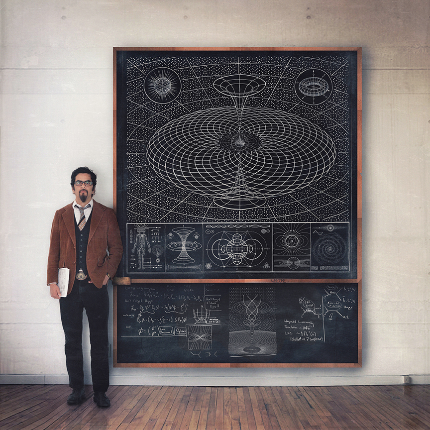 Cosmological Mysteries by Daniel Martin Diaz. Photo by Allan Sturm